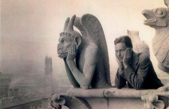 C.C. Dasham